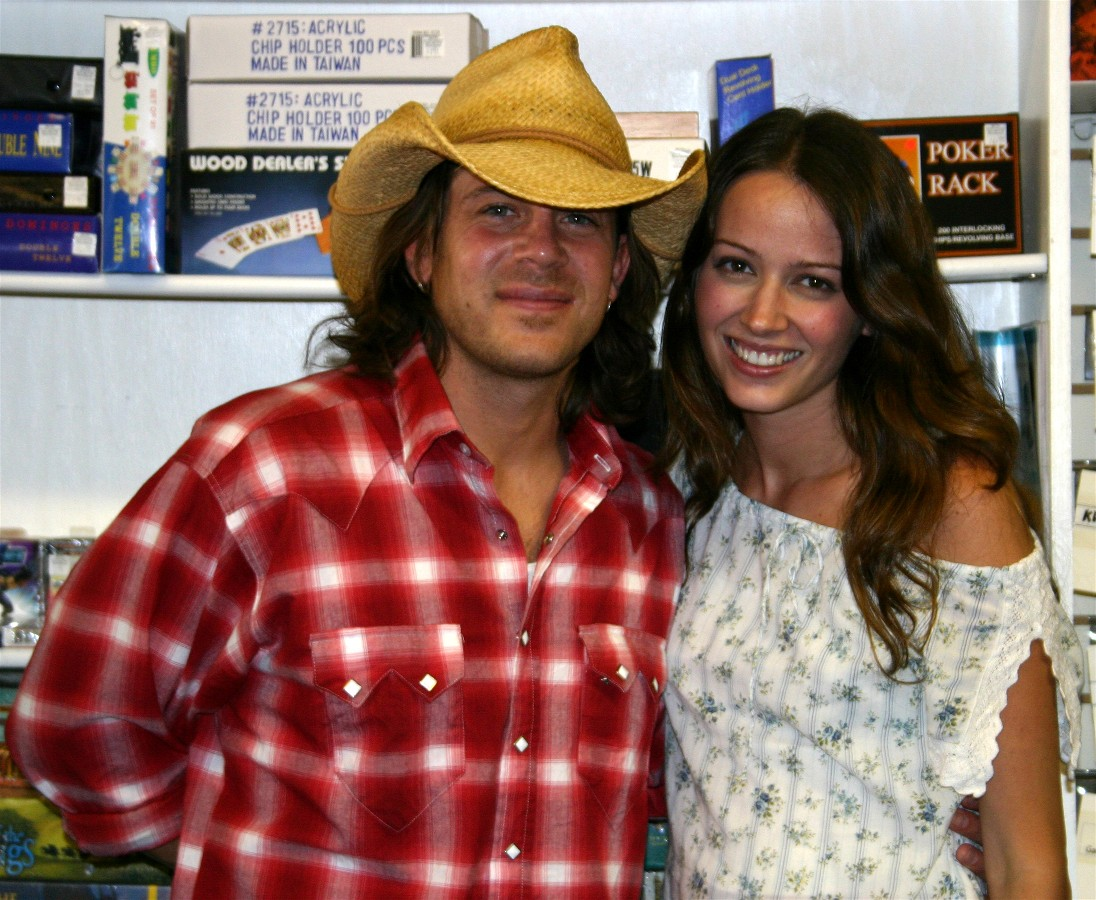 Christian Kane and Amy Acker at a signing in Santa Barbara.